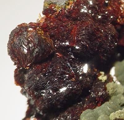 Beraunite, Kidwellite Locality: Coon Creek Mine (York Mine), Shady, Polk County, Arkansas, USA (Locality at ) Size: 3.4 x 3.3 x 2.8 cm. A very rare specimen of crystallized beraunite, colorful and showy. This is exceedingly rare material in such quality. These were found just once, I am told, in the 1960s. The specimen is from a pocket which produced probably the best of species for beraunite in the US. The kidwellite, a green mineral, is a nice association and was first found in Arkansas.